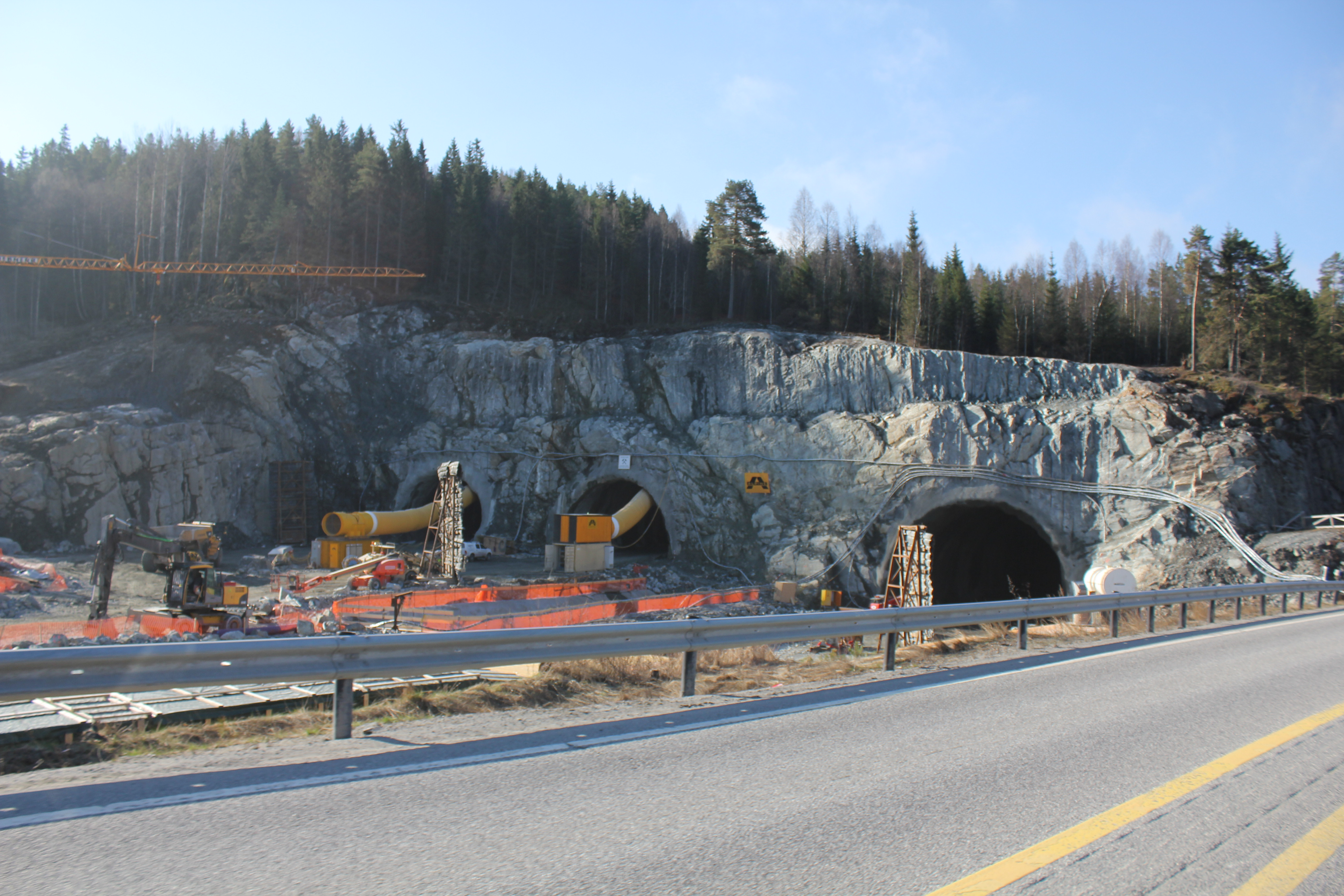 Construction of a new highway, European Road 6, by Lake Mjøsa, Norway. To the left: the two tubes of the Korslund tunnel. To the right: the Molykkja railway tunnel on the Dovre line.